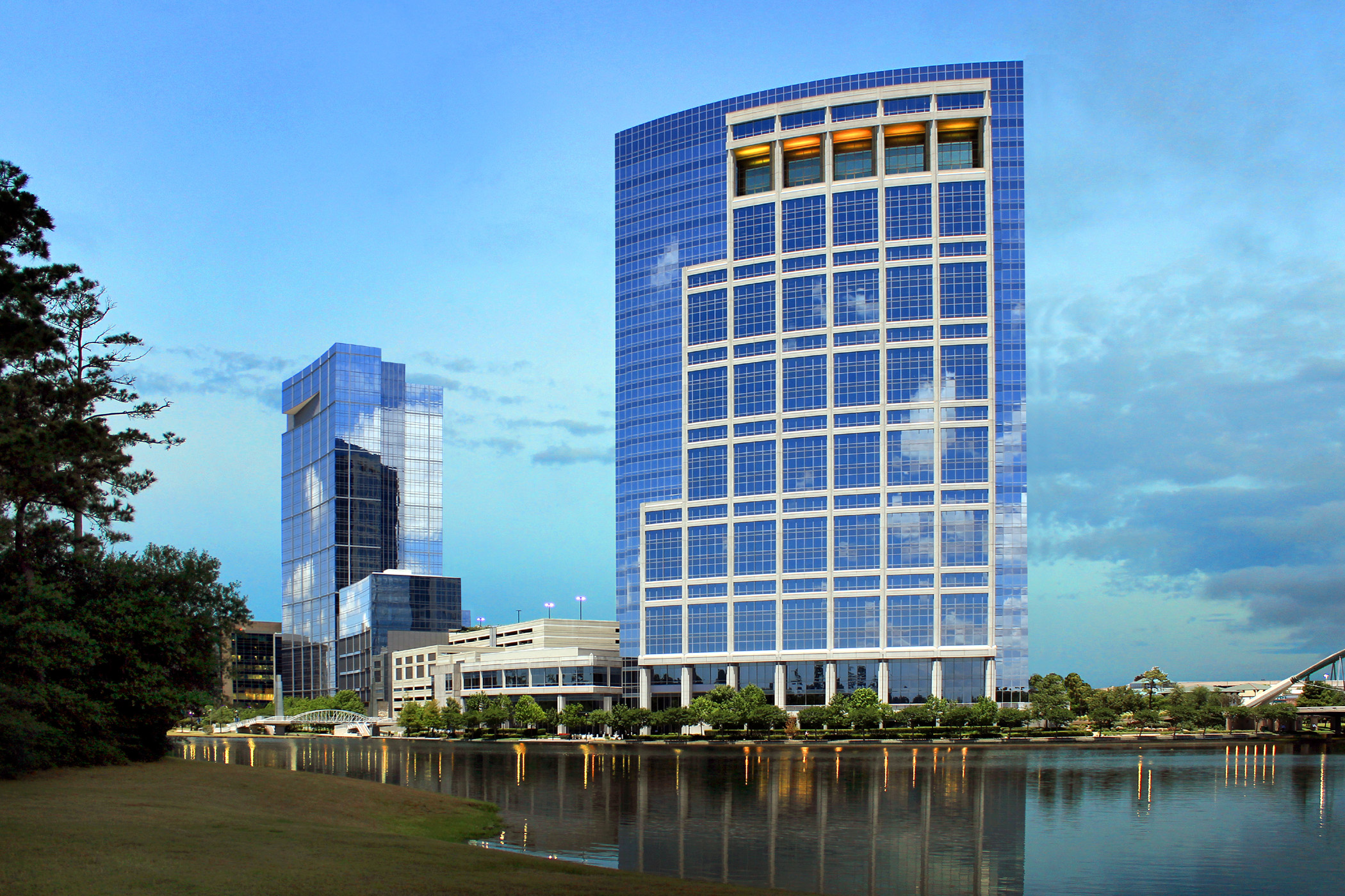 Anadarko Petroleum Corp, The Woodlands Texas